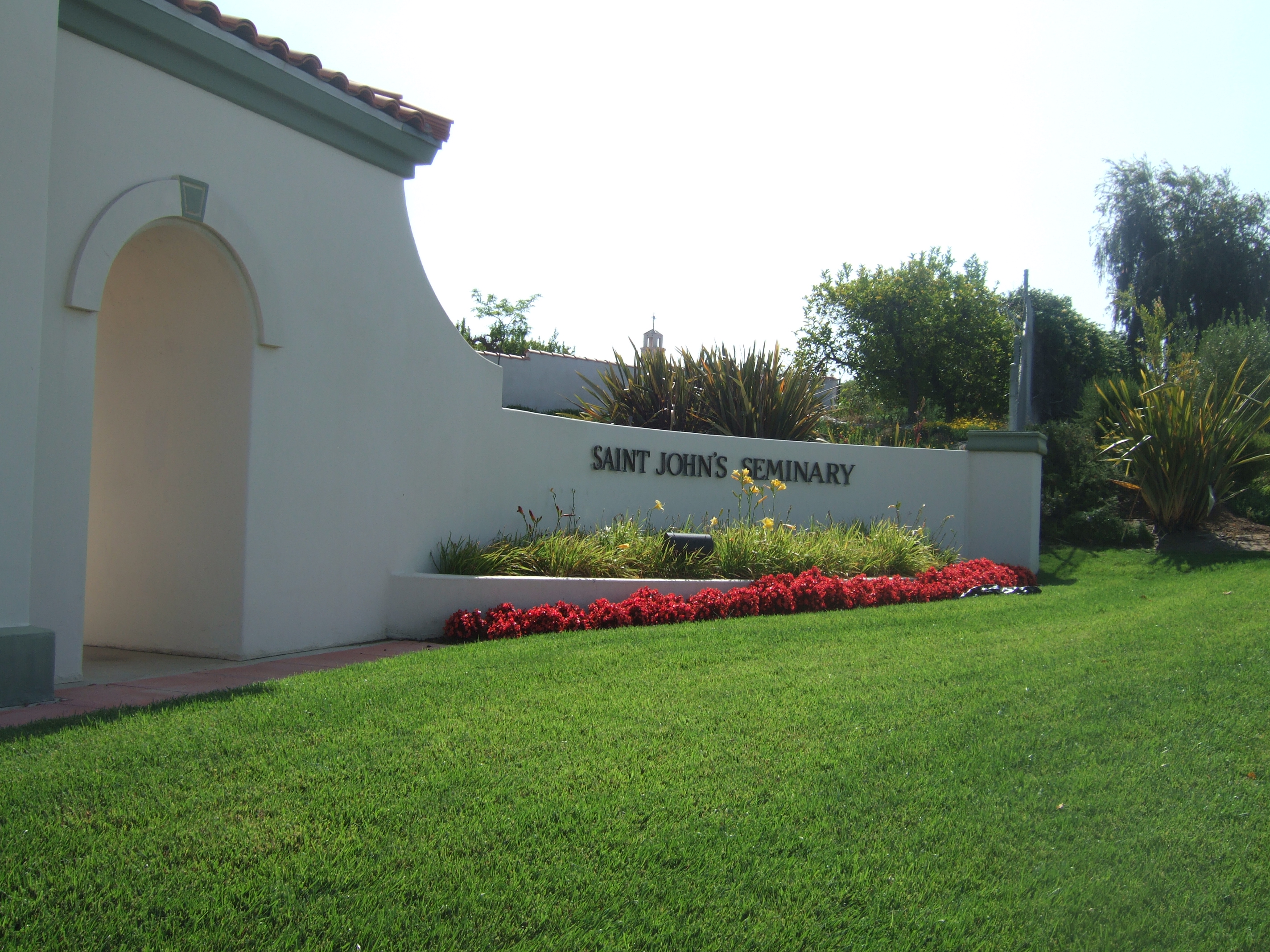 The sign facing the road at the entranceway of Saint John's Seminary in Camarillo, California, USA